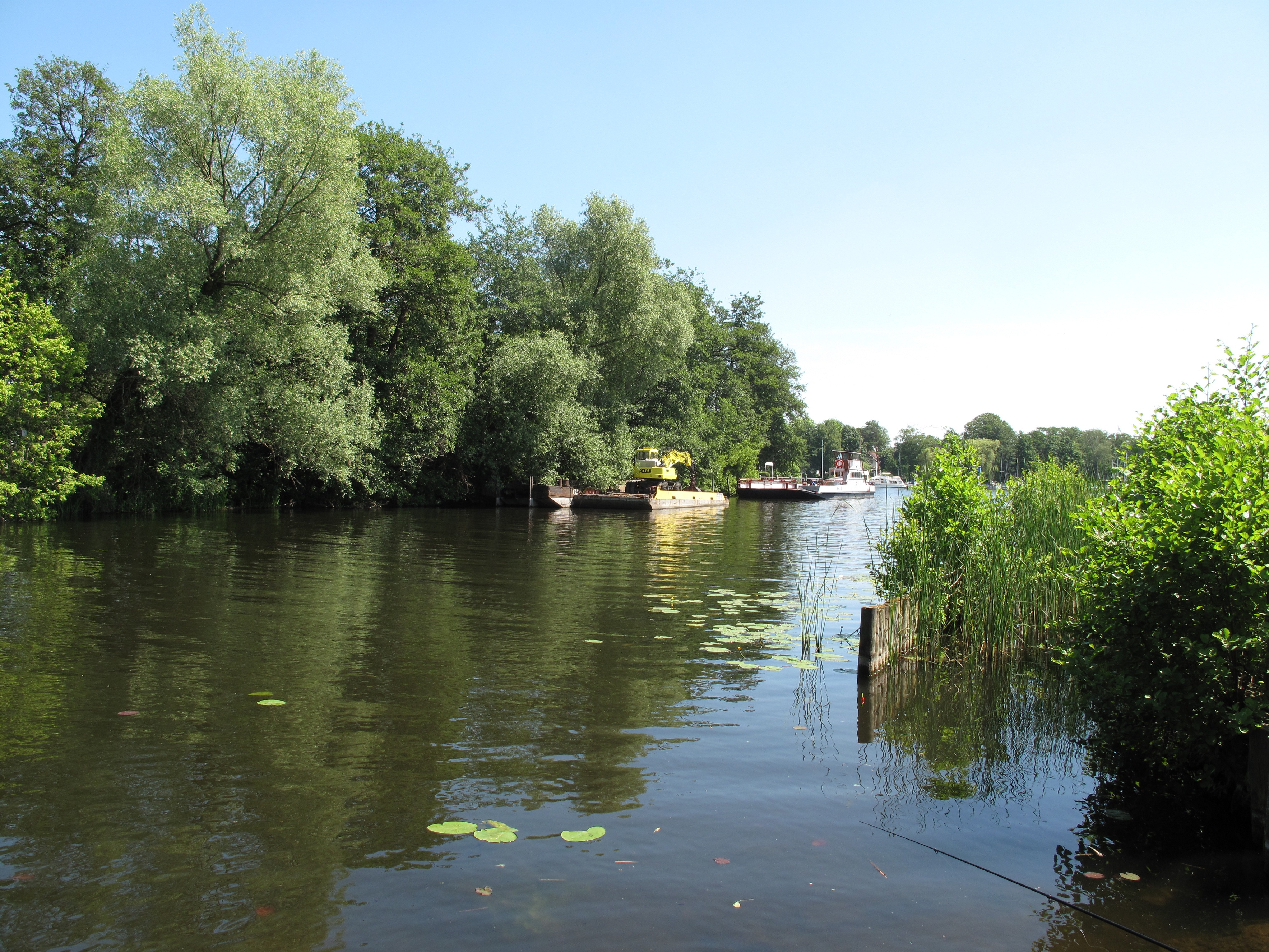 The Aalemannkanal is a branch canal of the river Havel in Berlin, Borough Spandau, locality Hakenfelde.